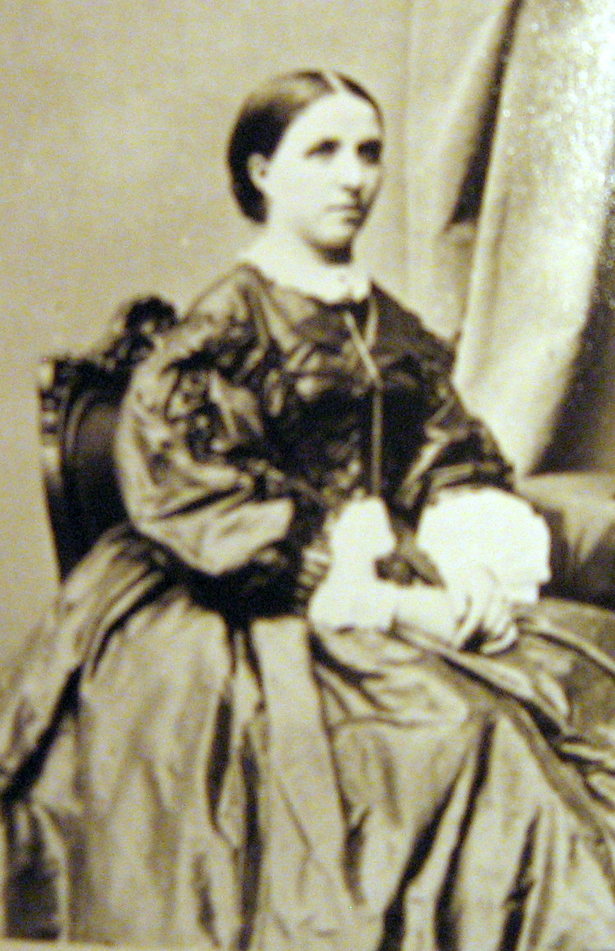 Ulrike_Möller, geb._Graffunder (1836-1865) was the first wife of Ferdinand Hermann Gustav Möller (* 22. März 1826 in Erfurt; † 31. August 1881 in Berlin)